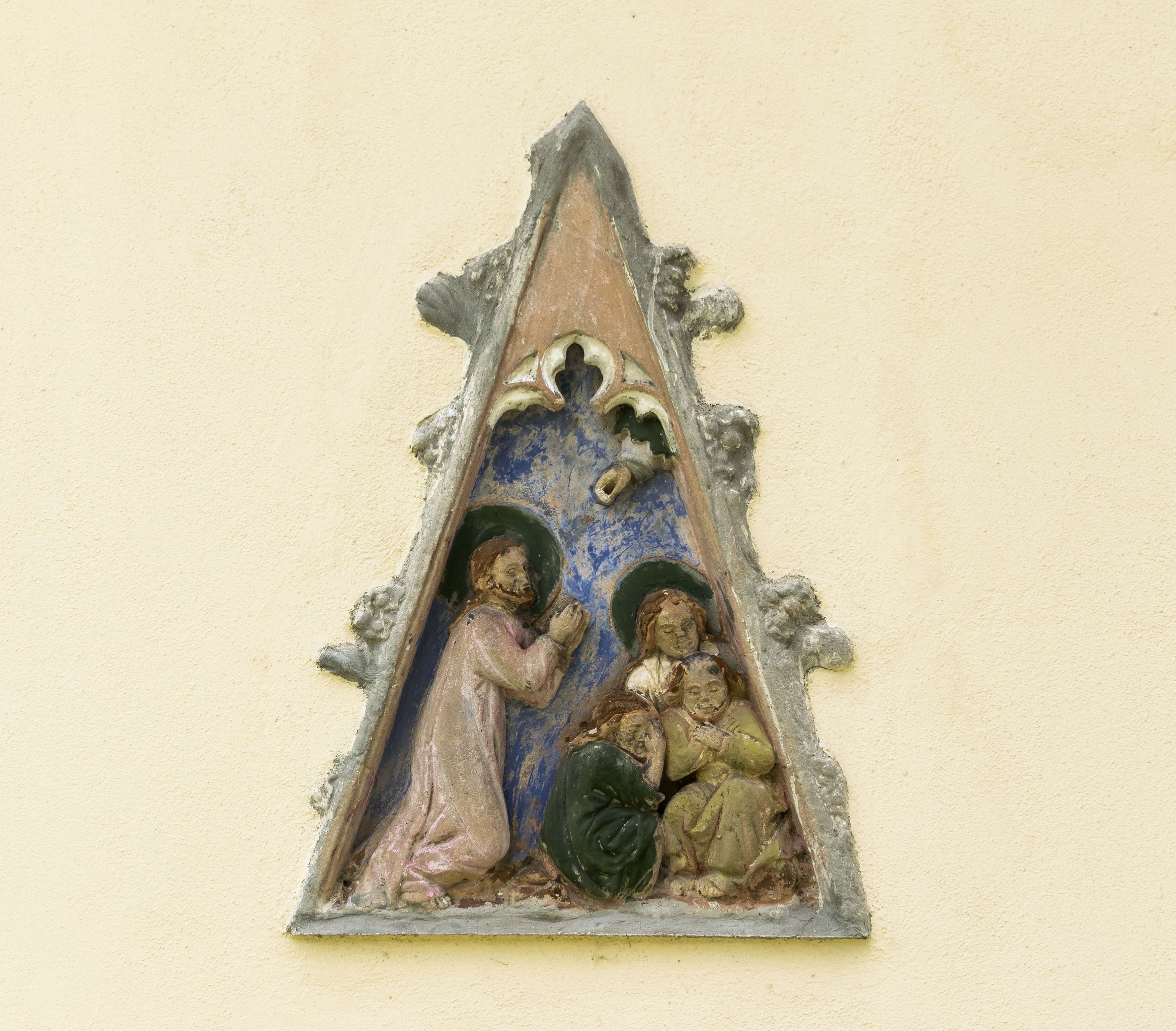 Sacred Heart chapel in Kamienna